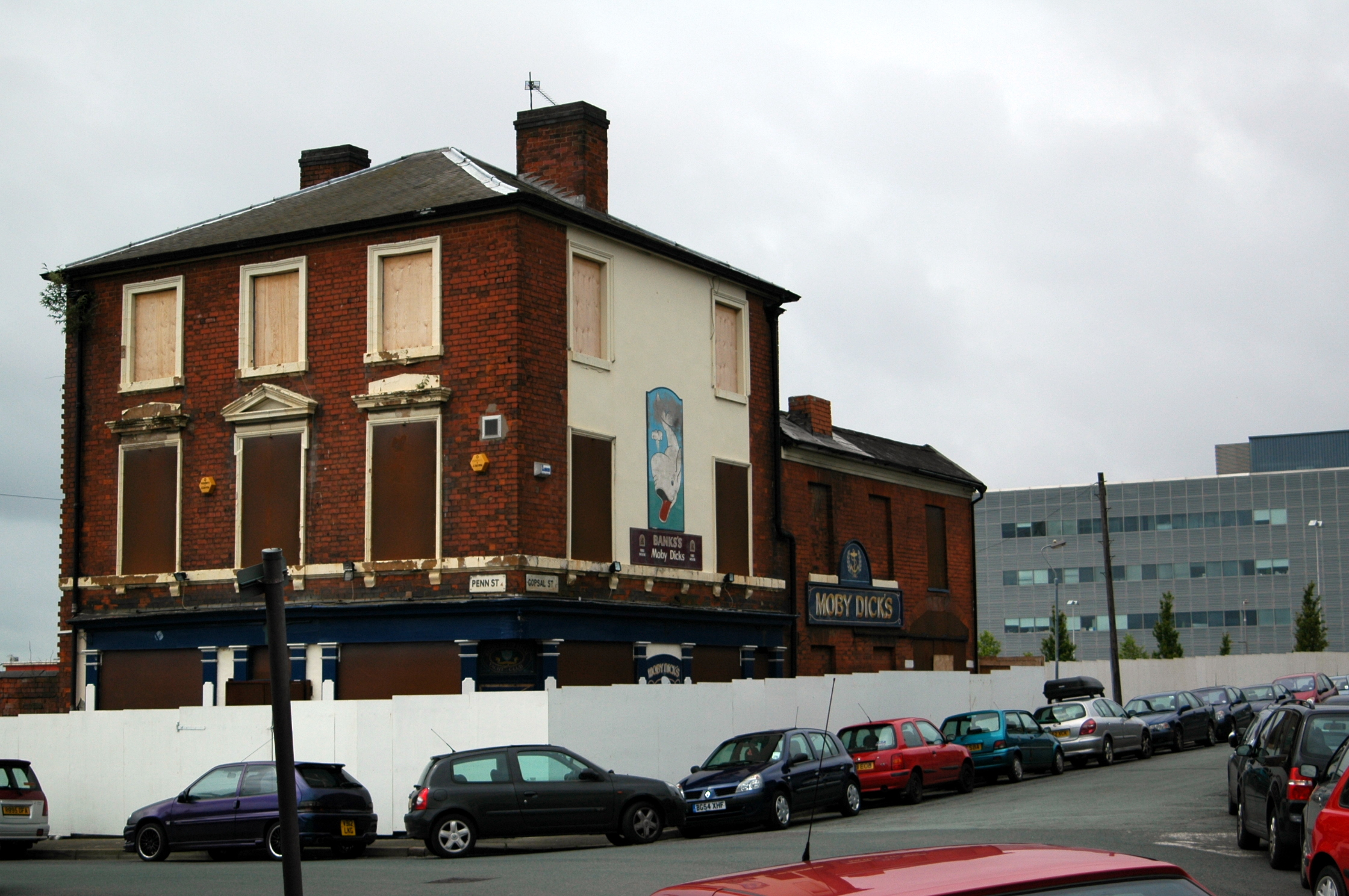 This Moby Dick's, a now derelict public house in the Ventureast development area in Eastside, Birmingham. Demolition has already commenced on the outbuildings to the rear of the site and buildings within the development area have also been demolished.